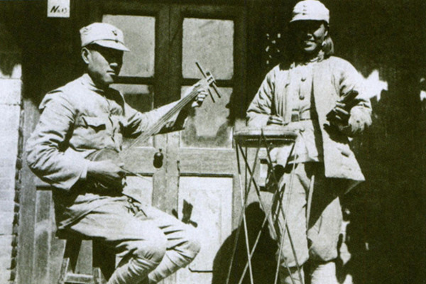 This is a photo of Li Jiefu, Li is a famous composer of China. The Photo was taken at 1938, according to the copyright law in China, it has been in public domain.